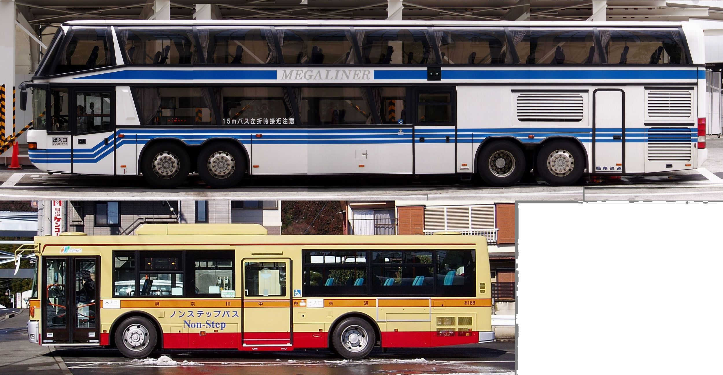 Comparison of omnibus and MegaLiner. Neoplan Megaliner N128/4 and Mitsubishi PKG-AA274KAN.